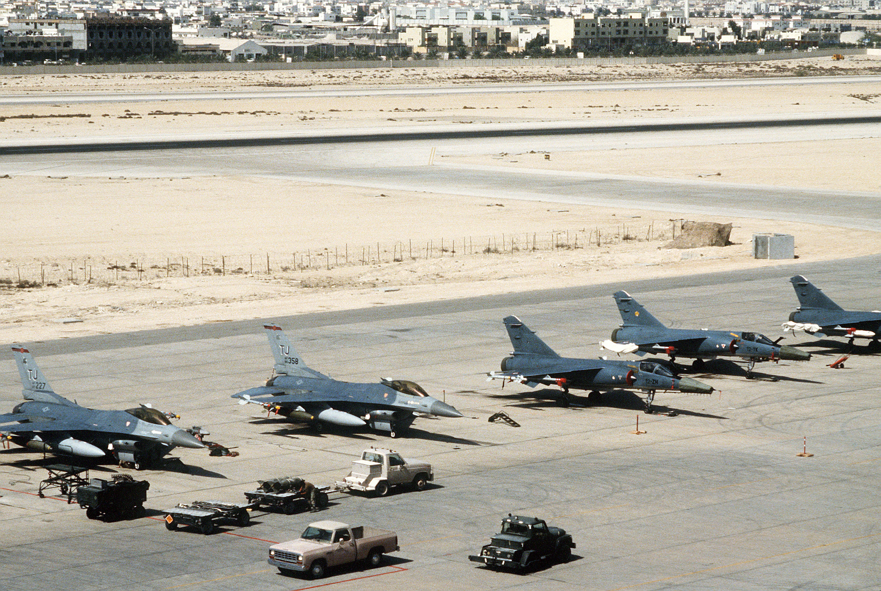 Doha International Airport : An ordnance trailer is parked in front of two U.S. Air Force F-16C Fighting Falcon fighter aircraft from the 614th Tactical Fighter Squadron, 401st Tactical Fighter Wing, Torrejon Air Base, Spain. The F-16C aircraft are armed with bombs and AIM-9 Sidewinder air-to-air missiles as they are prepared for a mission during Operation Desert Storm. At right are three french F-1C Mirage fighter aircraft of 12e Escadre de Chasse are armed with Matra R550 Magic II missiles.